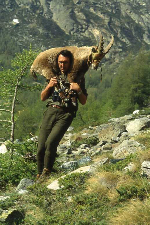 Guido Tosi is transporting an individual of Ibex (Capra ibex) to reintroduce